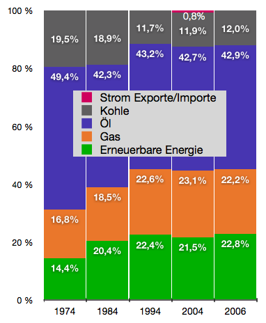 Energy sources of gross domestic energy consumption between in the year 1974, 1984, 1994 and 2004. Data